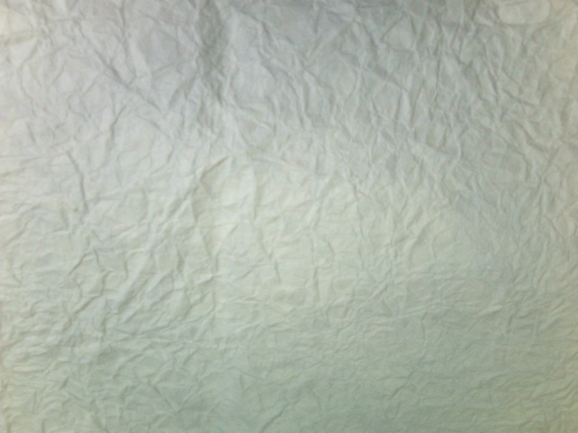 A sample of paper made using the Momigami method.